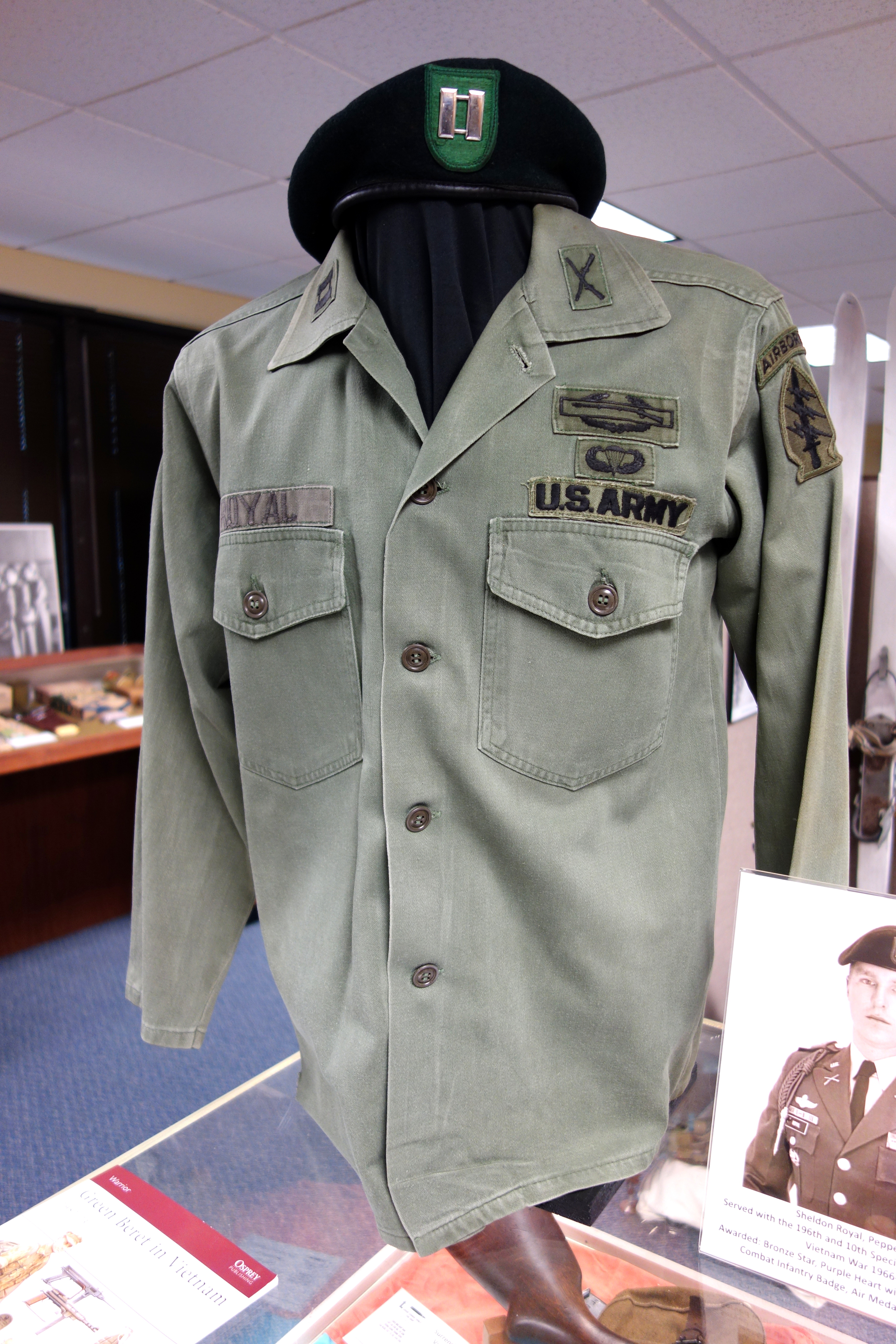 Exhibit in the Fort Devens Museum, 94 Jackson Road #305, Devens, Massachusetts, USA.